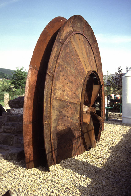 Waddle fan, National Garden Festival, Ebbw Vale The grid reference is approximate as this part of the site appears to have been built on. This is a colliery ventilating fan on loan from Big Pit Mining Museum.